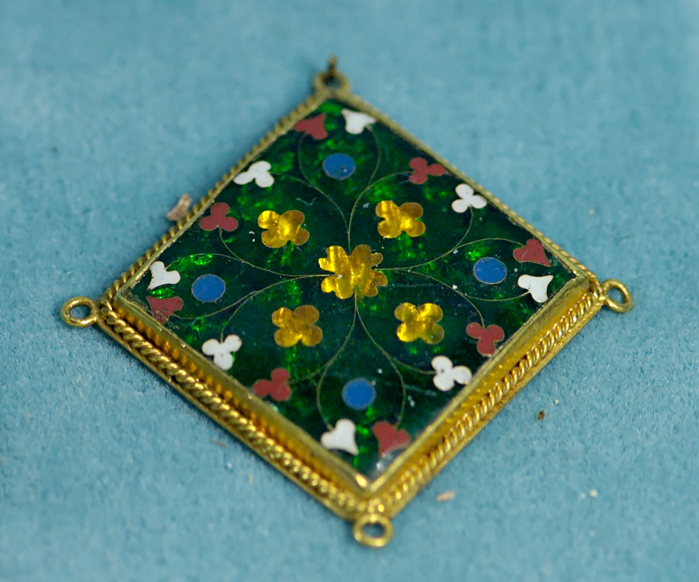 Plique-à-jour enamel setting. Cloisonné enamel on gold, Paris, late 13th century–early 14th century.